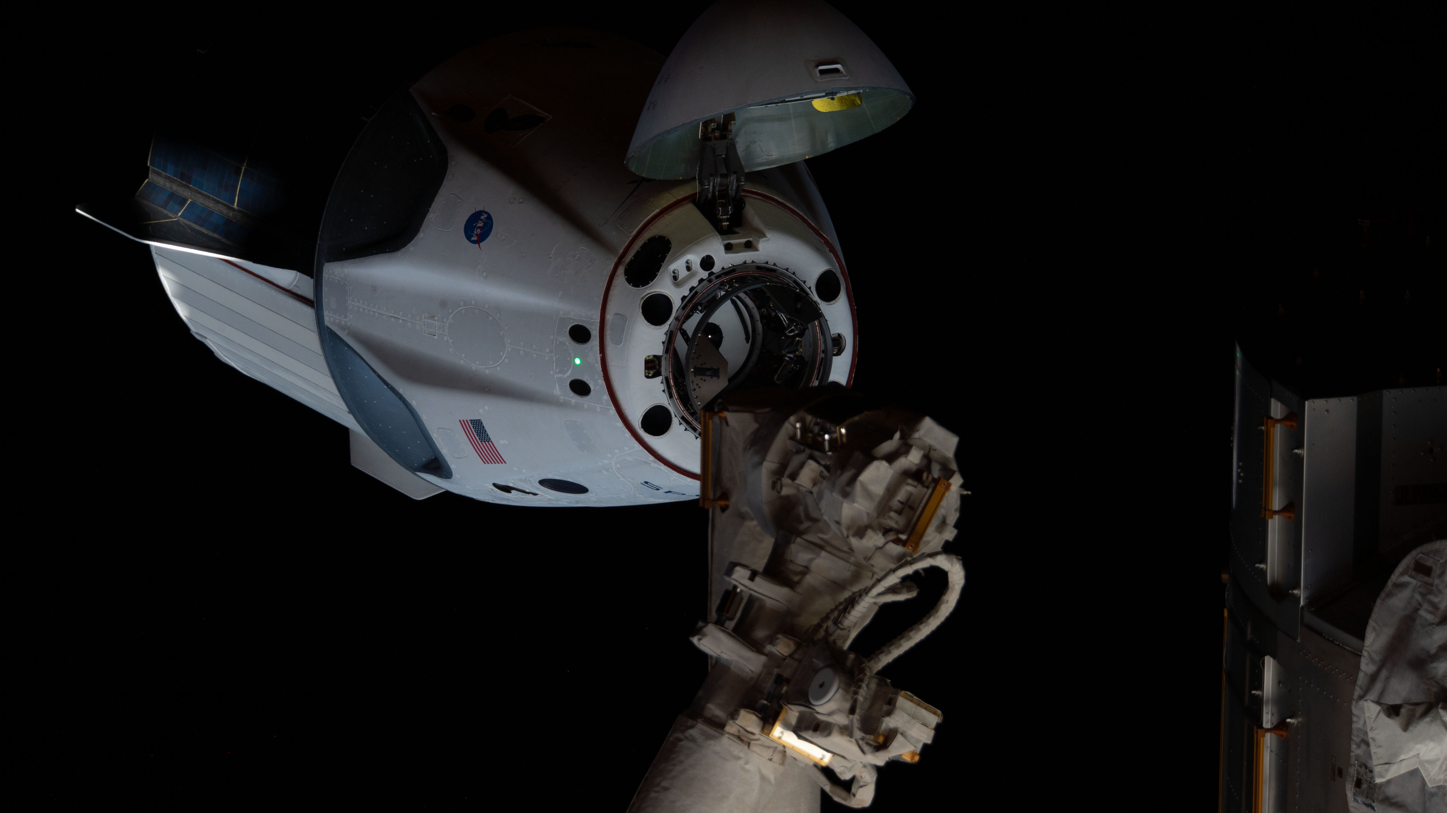 iss063e021463 (May 31, 2020) --- Astronauts Doug Hurley and Bob Behnken of NASA's Commercial Crew Program were aboard the SpaceX Crew Dragon as it approached the International Space Station. The Crew Dragon's nose cone is open revealing the spacecraft's docking mechanism that would connect to the Harmony module's forward International Docking Adapter.